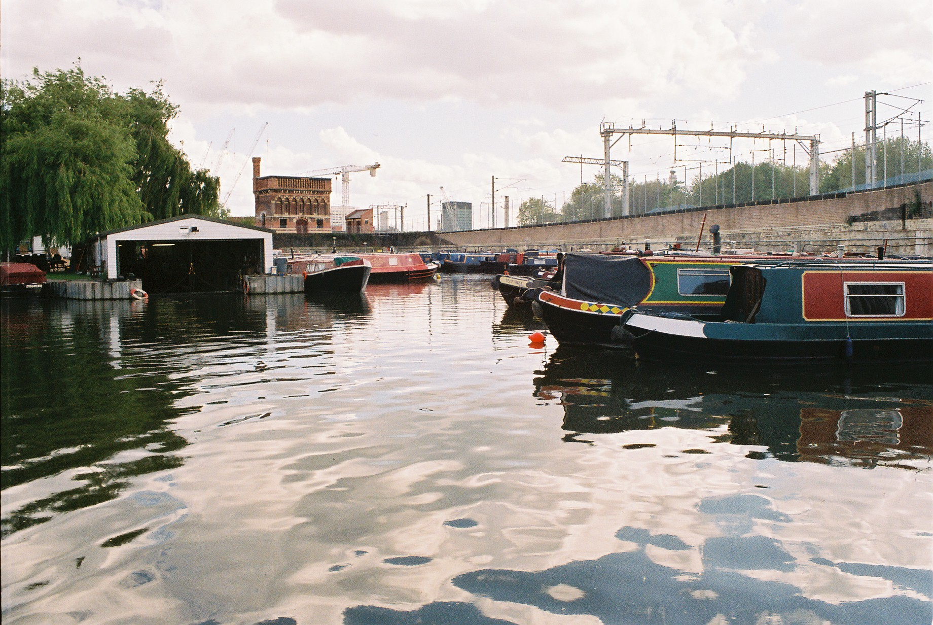 Regent's Canal - St Pancras Basin. Looking south across the canal to the basin, once optimisically known as the Yacht Basin. In the distance are Centre Point and a tower block at Euston.